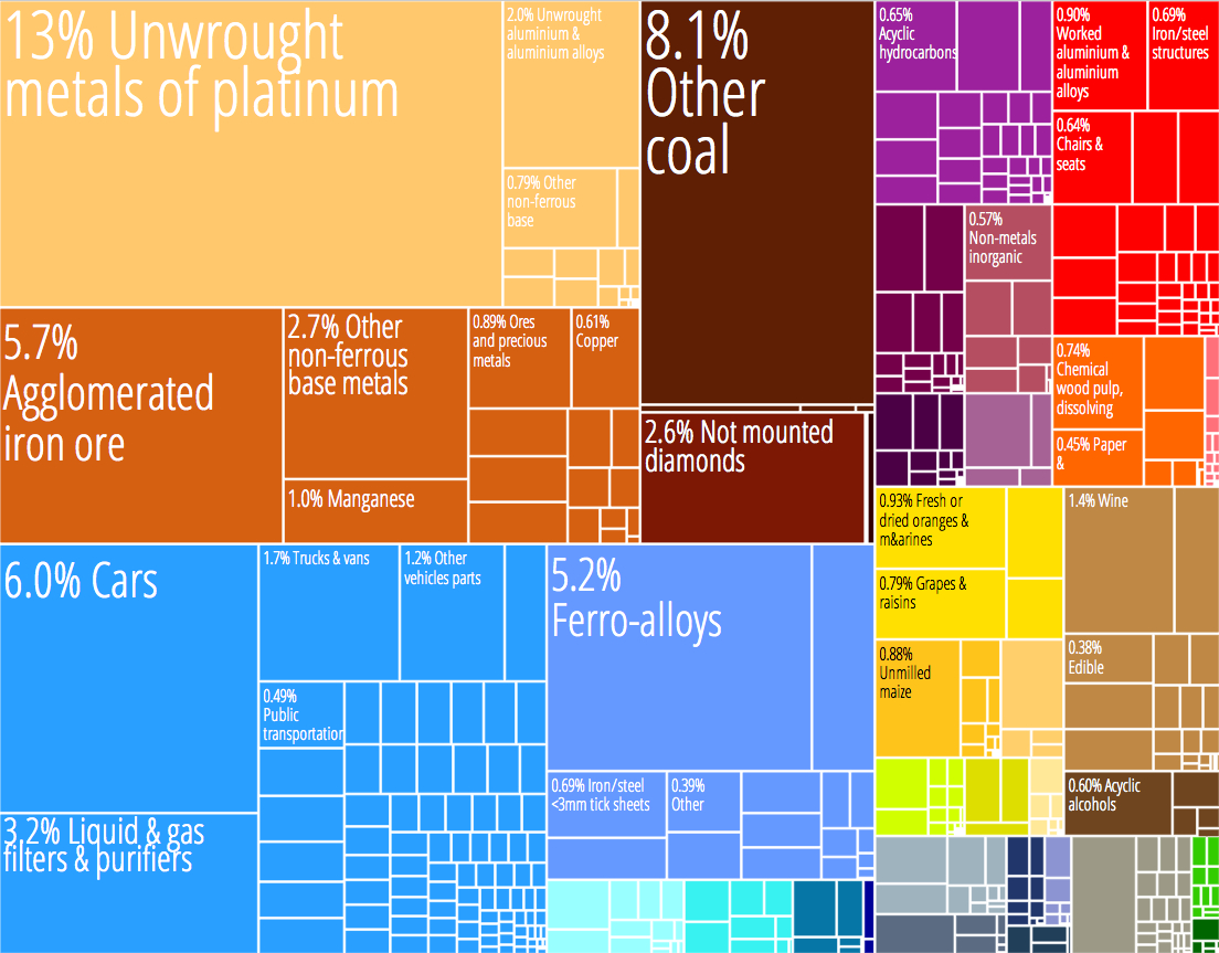 Graphical depiction of the country's product exports in 28 color coded categories. Each colored box represents one product and its size is proportional to the share of the country's total exports that the product represents.